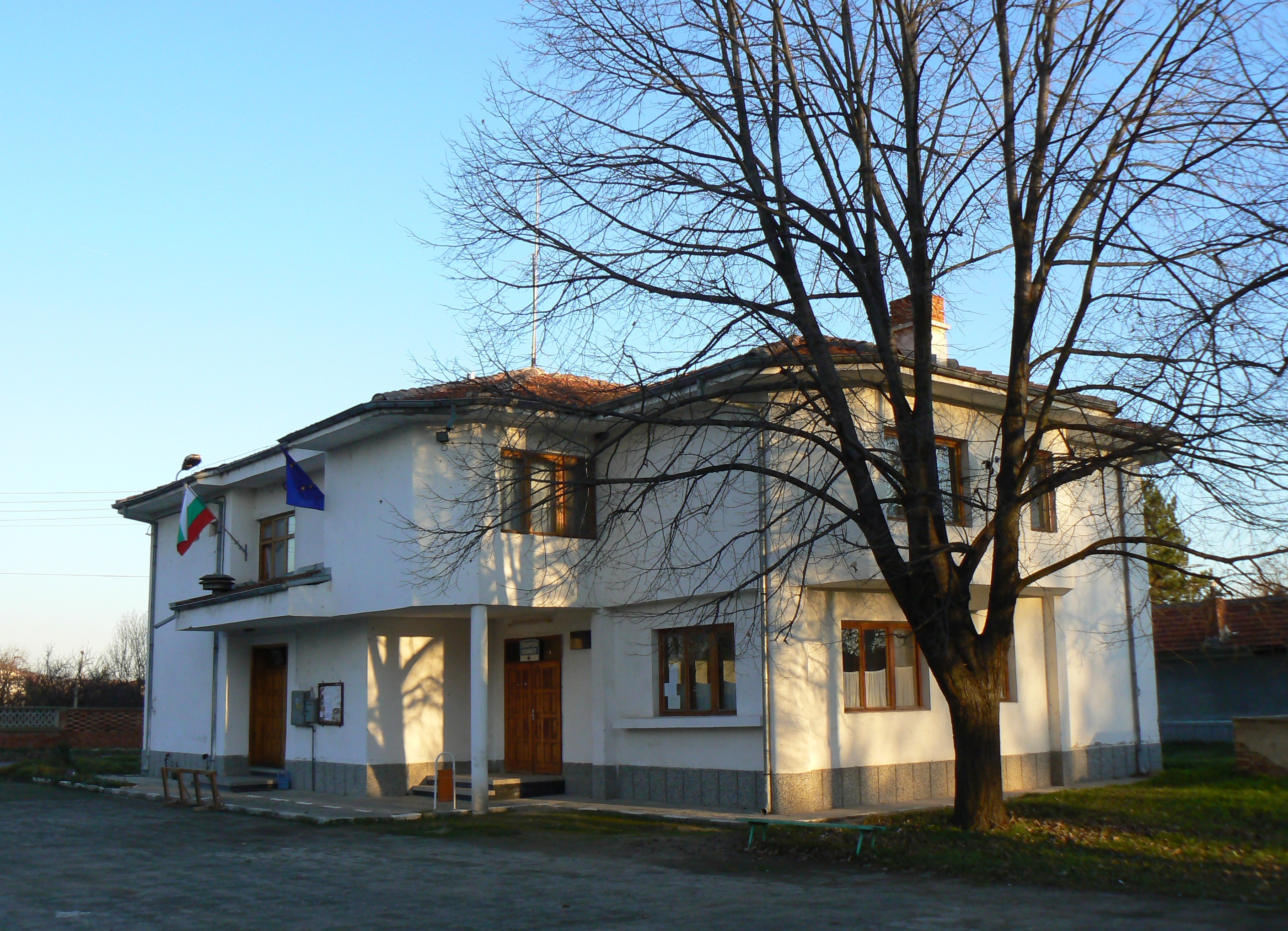 The mayors office of village Granit, Bulgaria